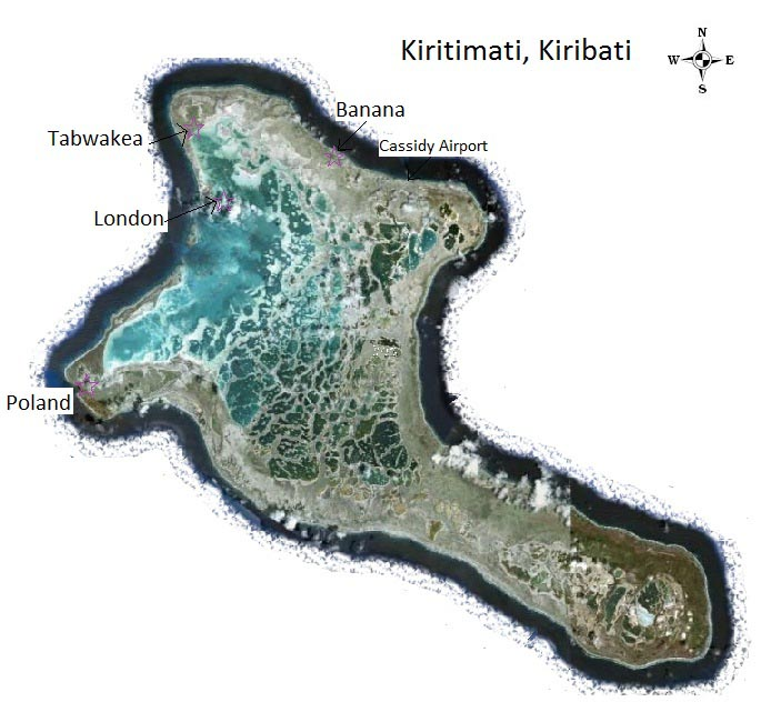 Astronaut photo of Kiritimati, Kiribati with villages and main landmarks